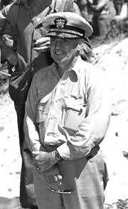 Crop of Rear Admiral Charles Pownall on the Roi and Namur Islands